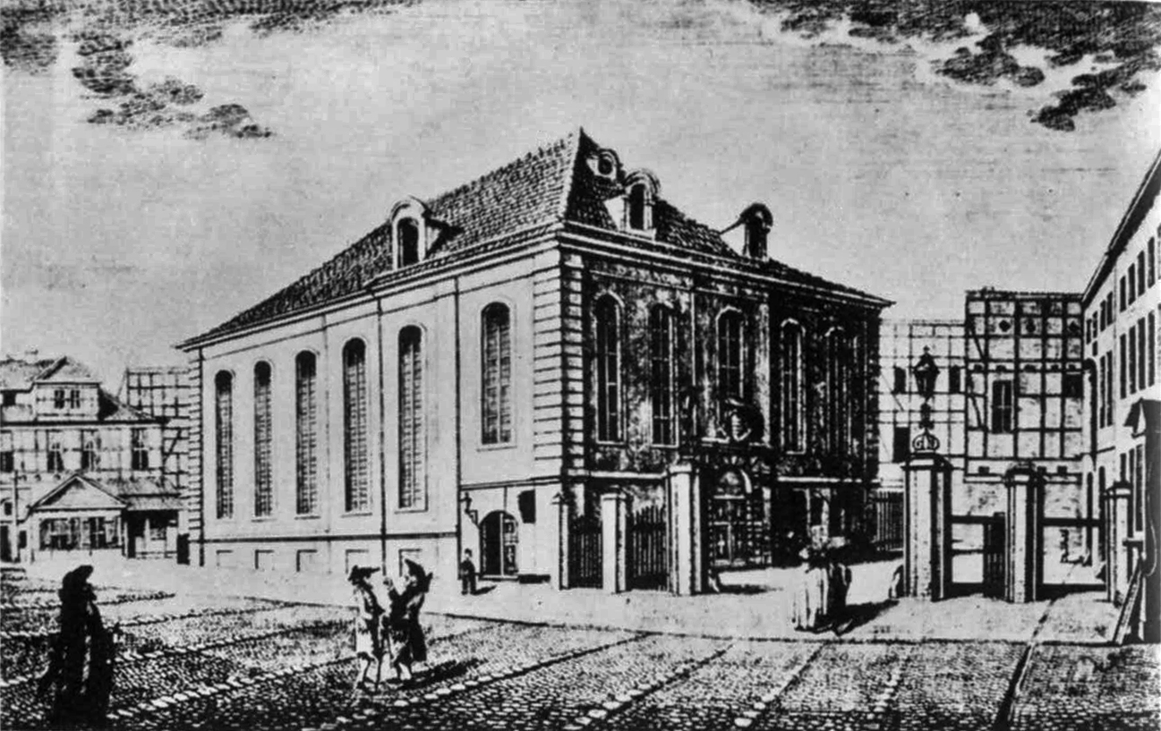 Berlin's Old Synagogue located at Heidereutergasse, constructed 1712-14 by M. Kemmeter. Here viewed from the northwest. Engraving by Friedrich August Calau.